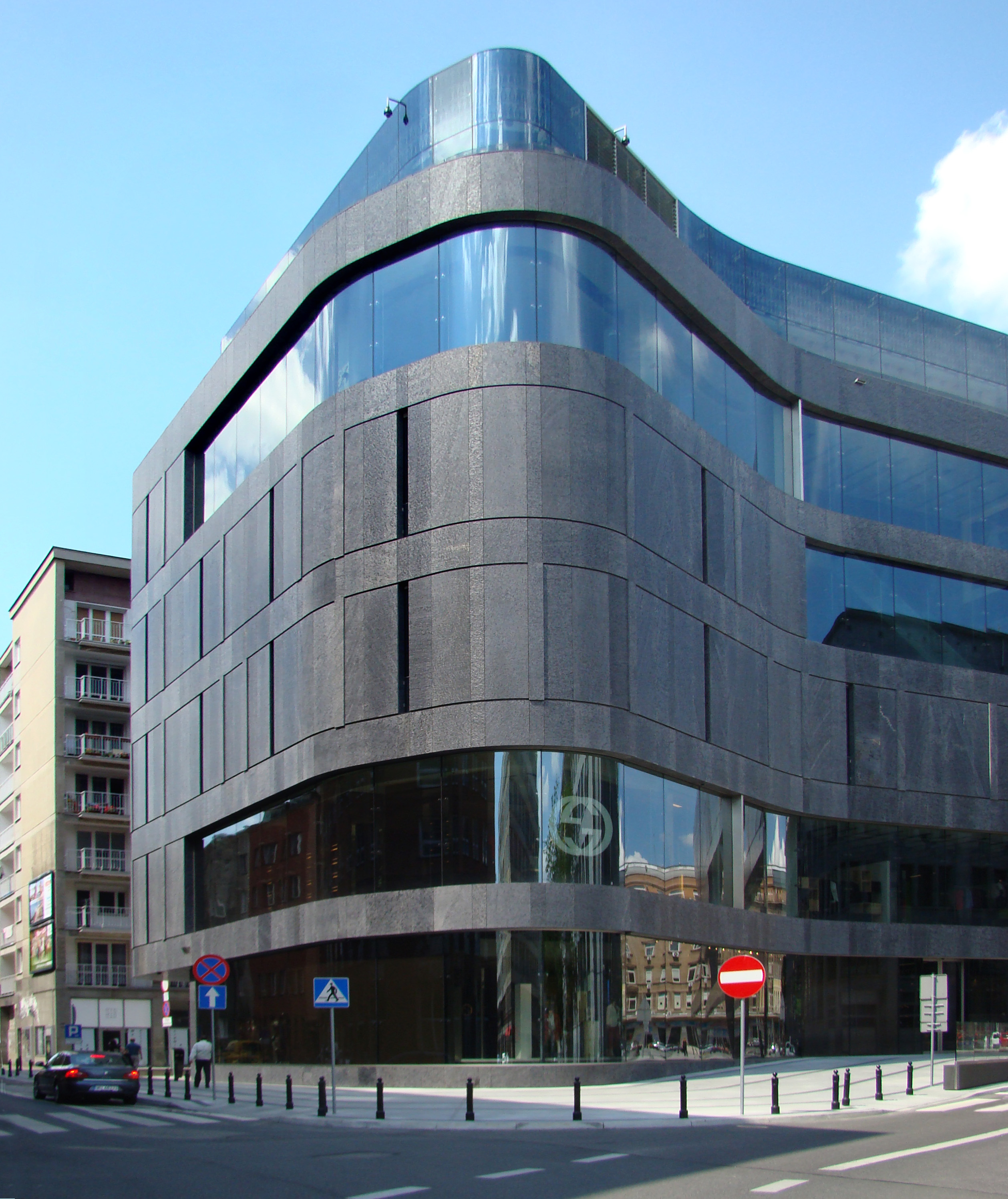 Wolf Bracka Warsaw